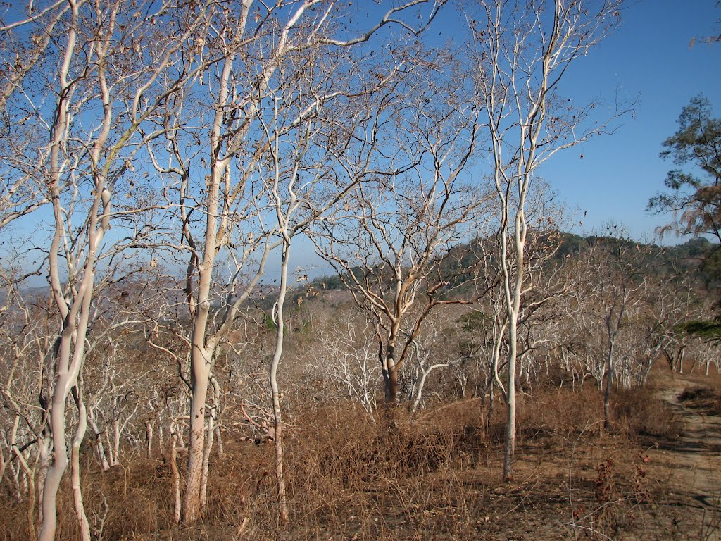 Deciduous Eucalyptus alba trees in late dry season, north of Wairoke, Luro, Lautem, Timor-Leste